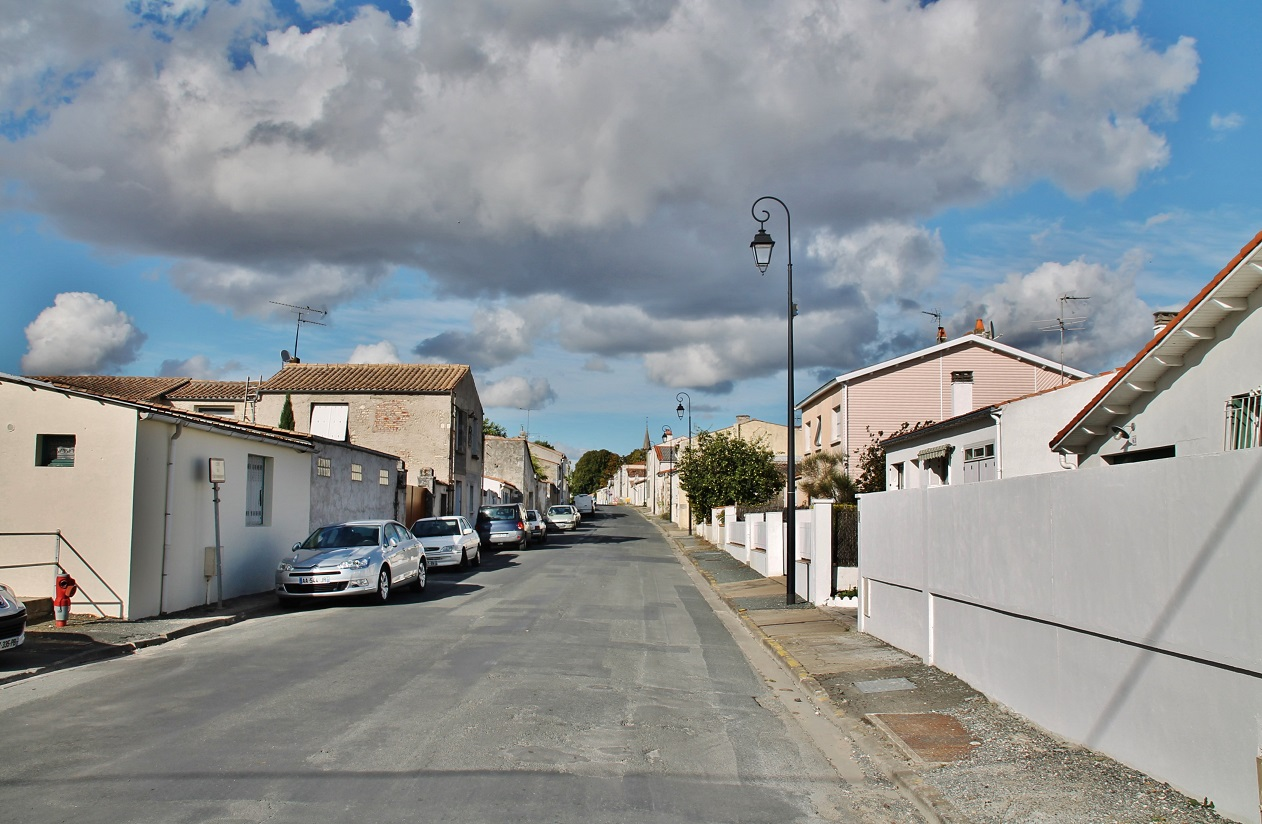 Rue du Village